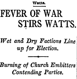 Headline from Los Angeles Times concerning strife in Watts, over liquor, 1915 Other information Link requires use of a library card.